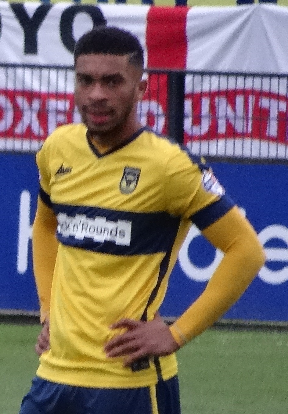 Tareiq Holmes-Dennis playing for Oxford United against York City at Bootham Crescent, York on 15 November 2014